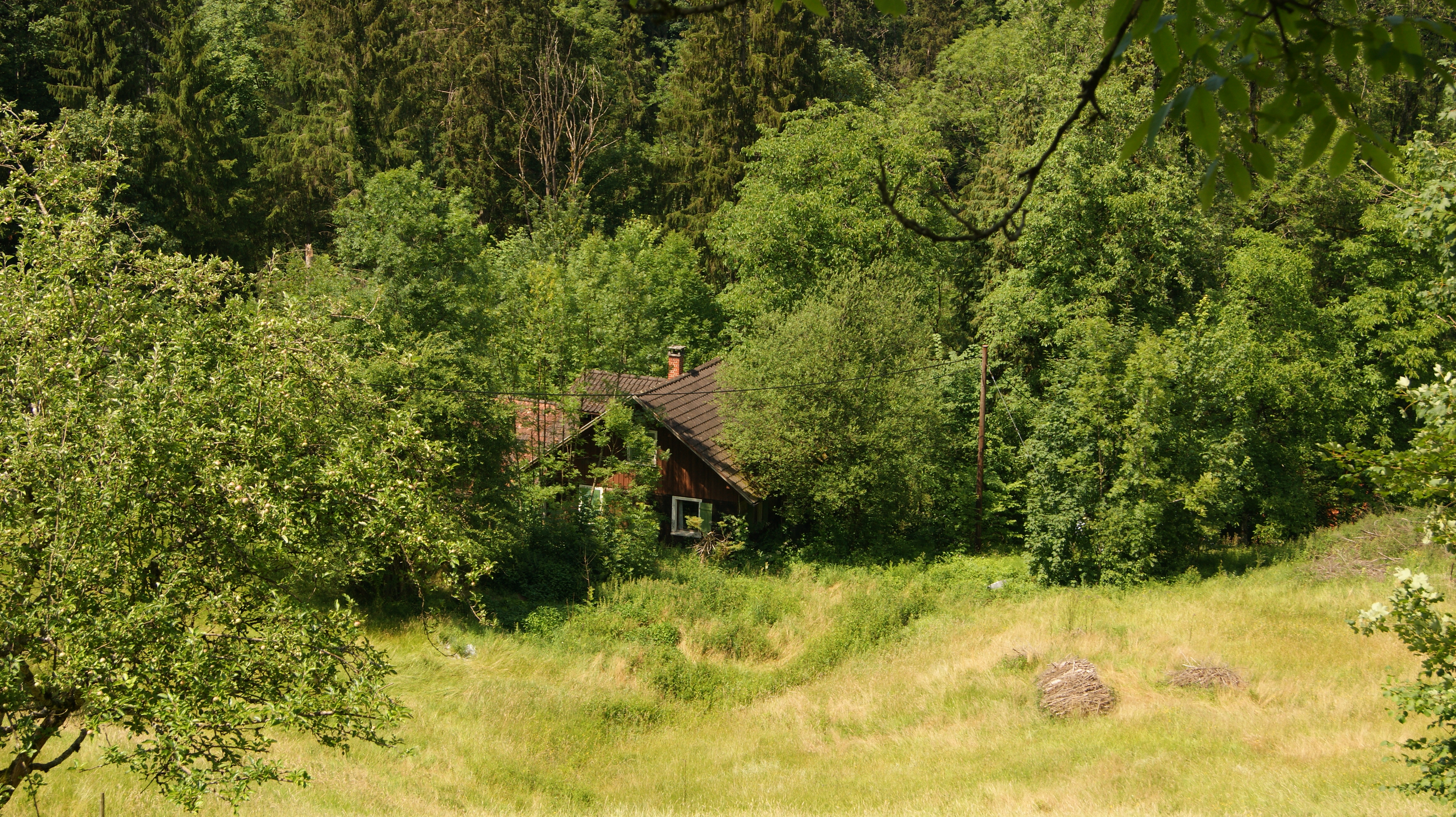 Plot Boden in Dornbirn (Vorarlberg, Austria). Lower Bodenhof (uninhabited).